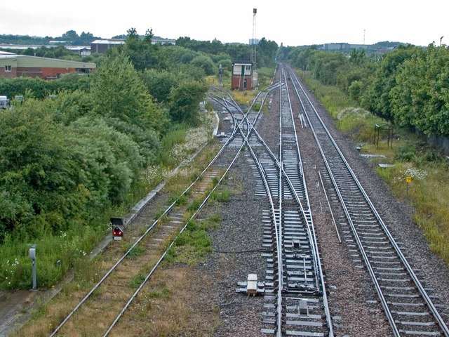 Madeley Junction The two-track line going straight on carries passengers and freight between Wolverhampton and Shrewsbury. The single track branch turns south towards Madeley and is used solely to supply coal to the Ironbridge Gorge Power station in SJ6503.